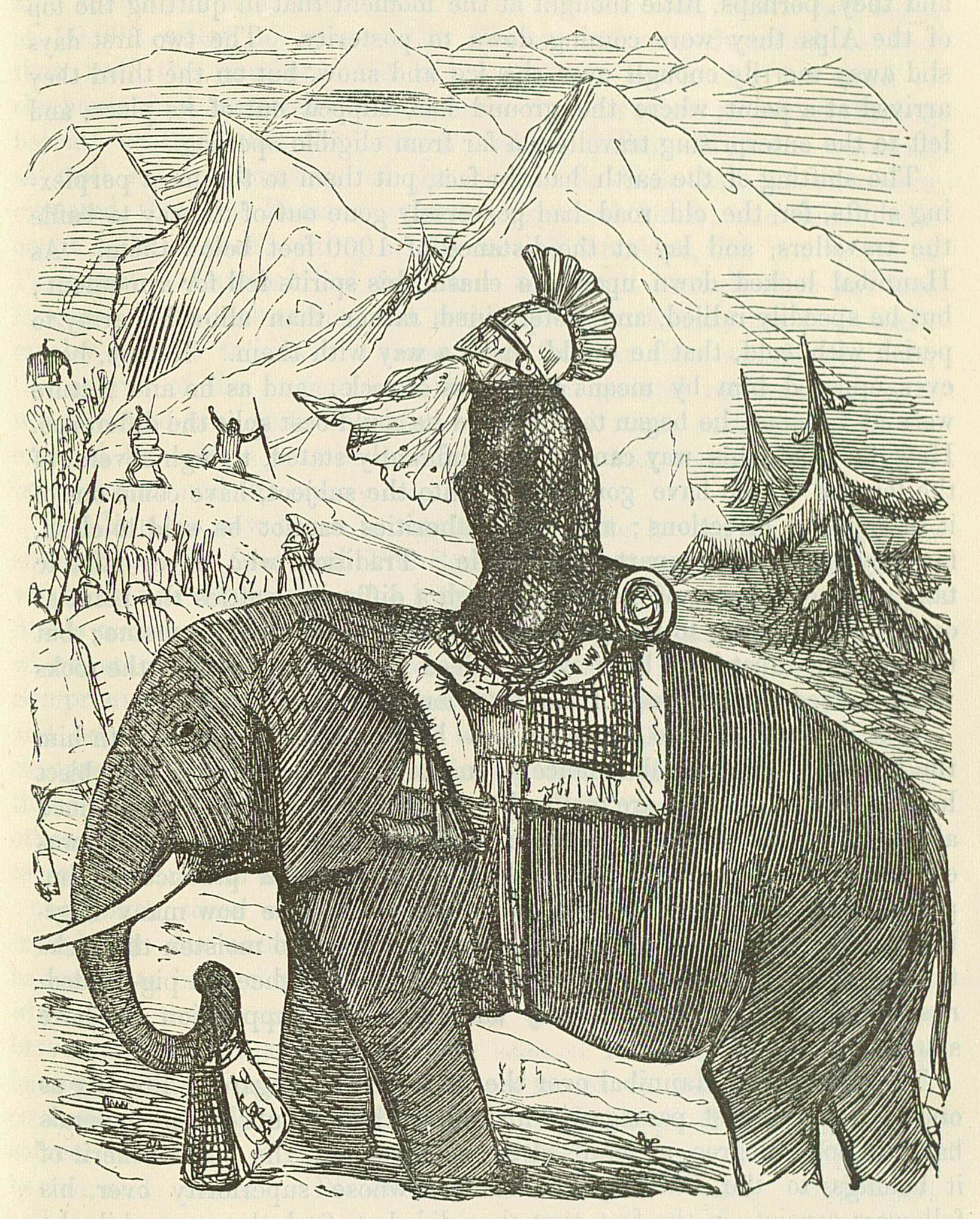 Image by John Leech, from: The Comic History of Rome by Gilbert Abbott A Beckett. Bradbury, Evans & Co, London, 1850s Hannibal crossing the Alps